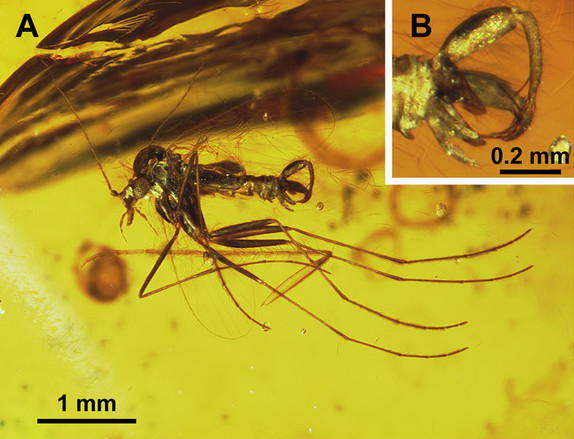 Phlebotominae: (A) Phlebotomus vetus ♂, Holotype specimen. (B) Phlebotomus vetus ♂, Holotype: terminalia lateral view.